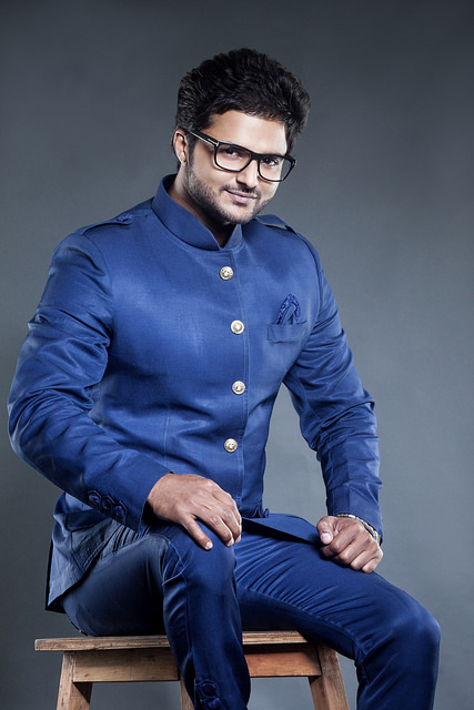 Suvigya Sharma is an Indian artist, painter, fashion designer and entrepreneur, best known for his Miniature paintings, Tanjore painting, Fresco work and lifelike portraits.